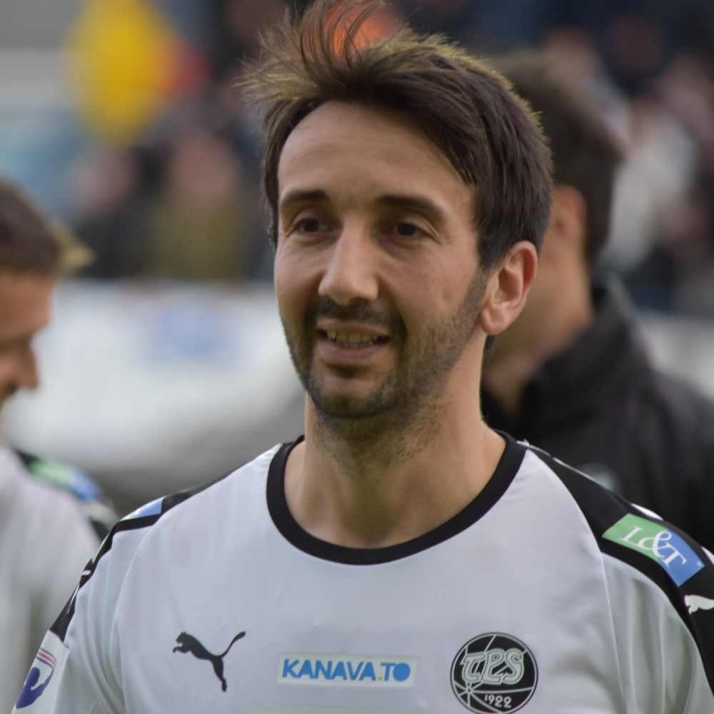 Football player Sami Rähmönen (TPS)